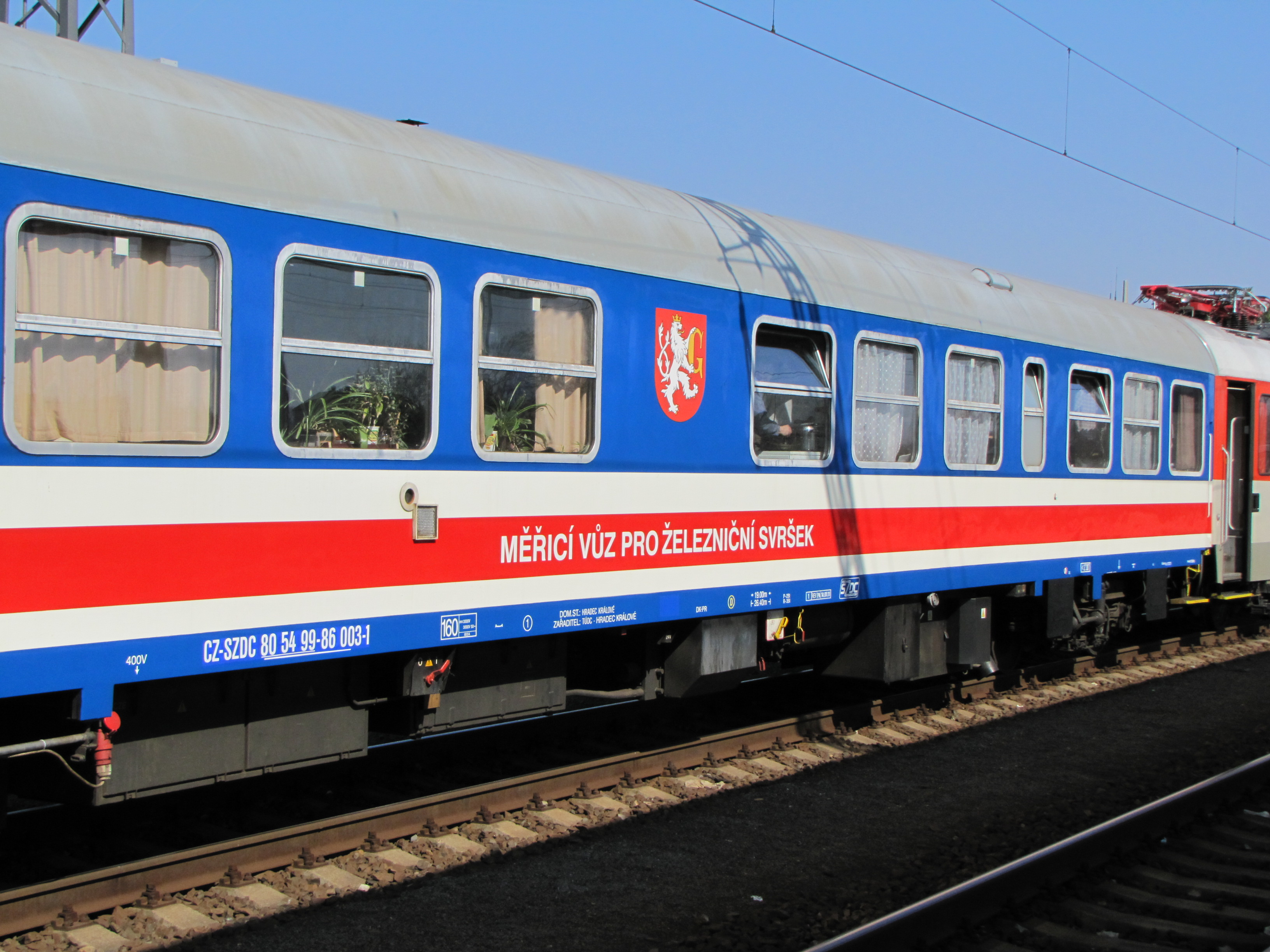 Contact-less track recording car. This track recording car with an inertial measuring system is designed for measuring, assessing and recording the following track geometry and related parameters: track gauge, curvature, alignment, cross level, twist, longitudinal level, rail corrugation, rail profile (orian system), vehicle response analysis system (vra). Lipník nad Bečvou train station (Czech Republic).